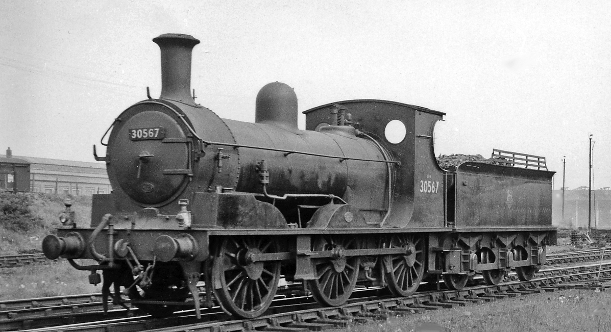 Elderly ex-LSWR 0-6-0 at Feltham Locomotive Depot. Older even than the 0-6-0 seen in TQ1273 : Ex-LSWR Drummond '700' class 0-6-0 at Feltham Locomotive Depot is Adams '395' class 0-6-0 No. 30567, which was built as No. 154 in 3/1883, later Duplicate No. 0154, SR No. 3154, then BR No. 30567 and survived until 9/59.